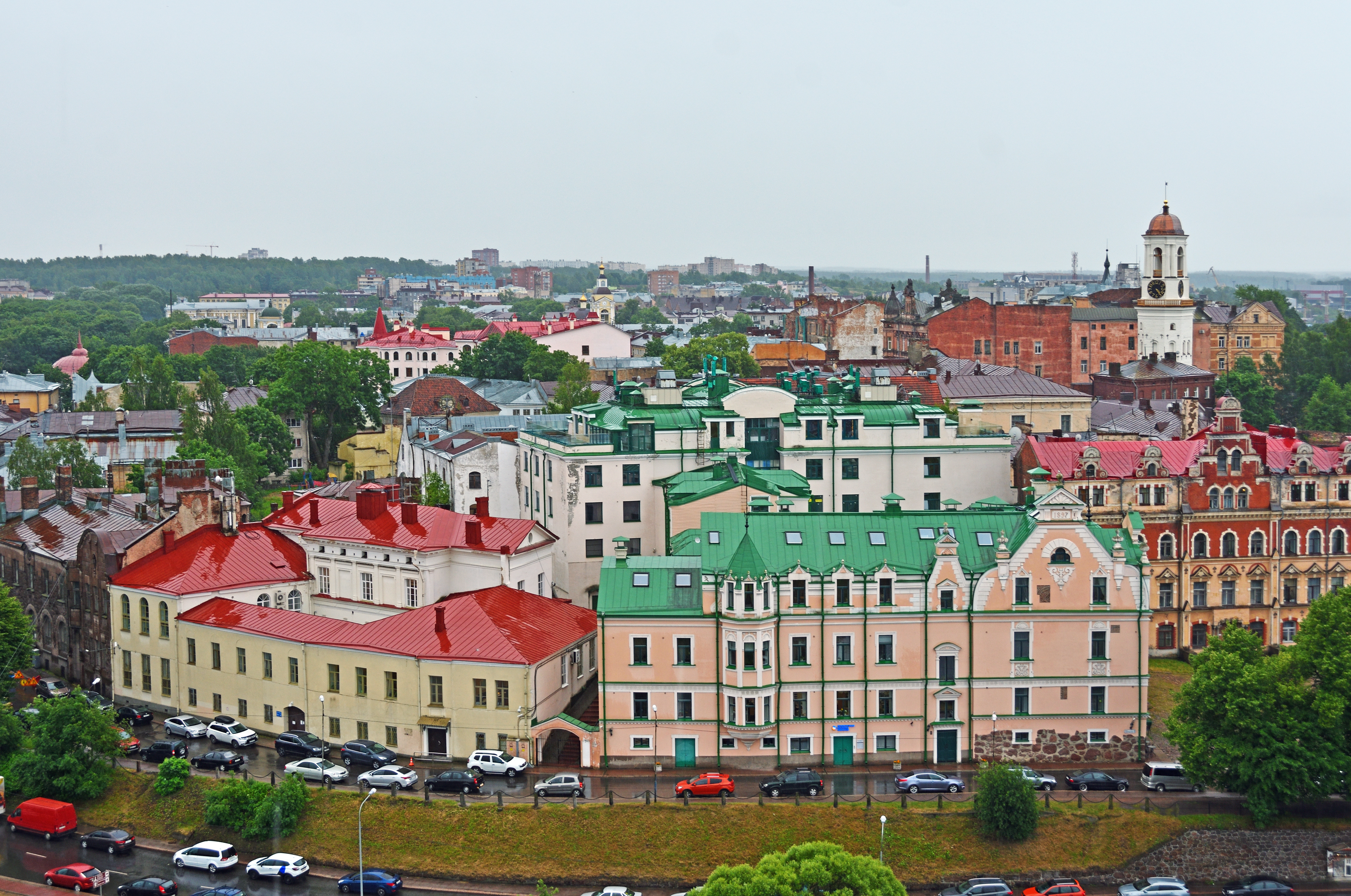 View of Old Town from the Olaf Tower, Vyborg, Leningrad oblast, Russia